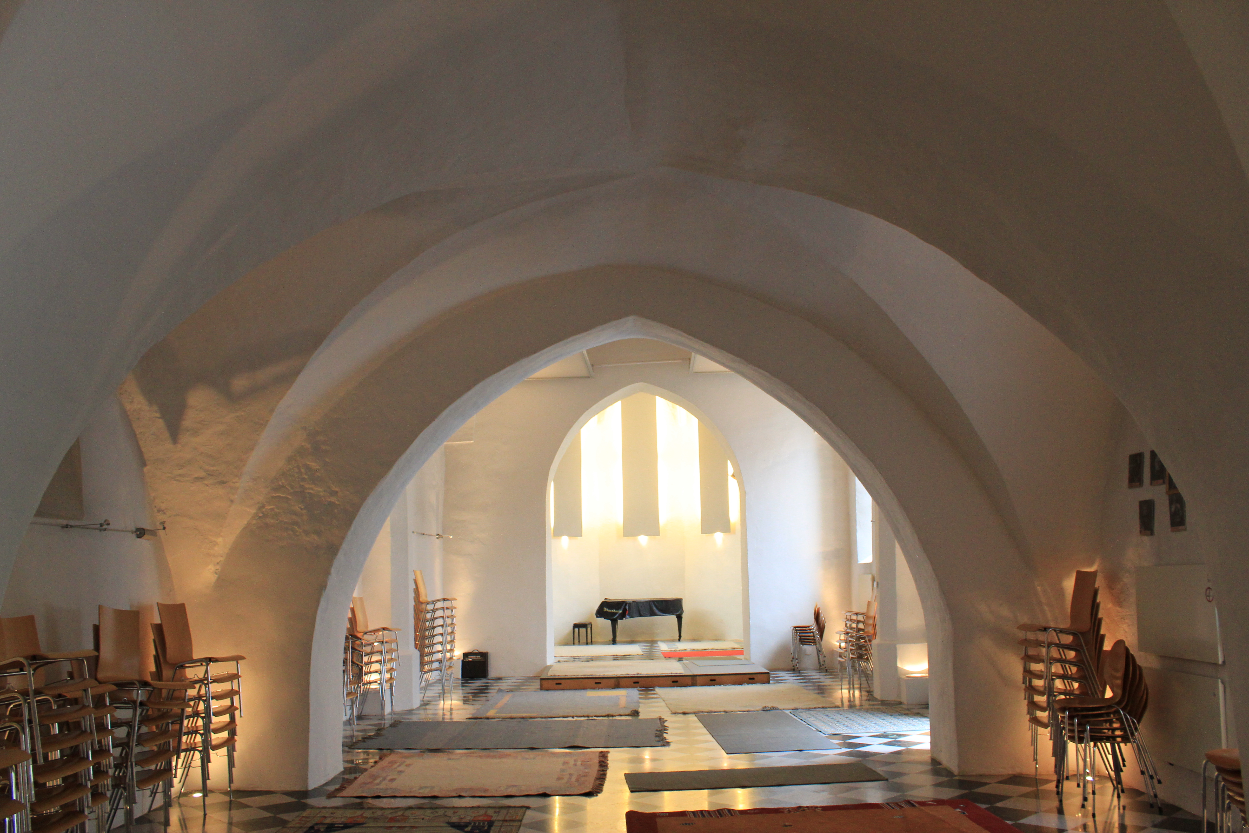 Former People-hospital-churchSankt Veit an der Glan - intorior